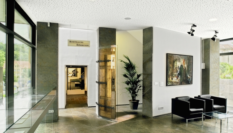 Bachhaus Eisenach, Foyer.